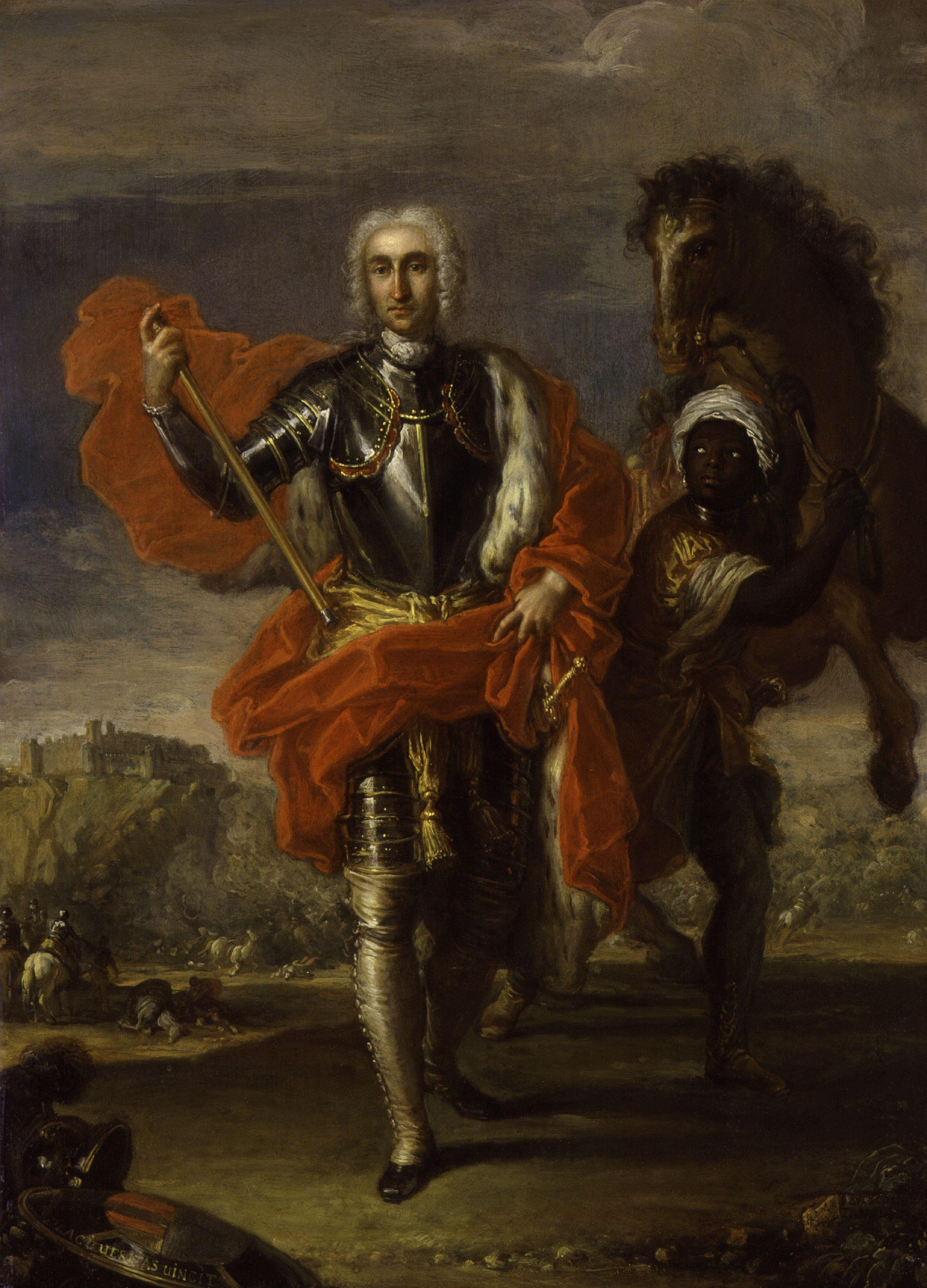 All images in this batch have been confirmed as author died before 1939 according to the official death date listed by the NPG.